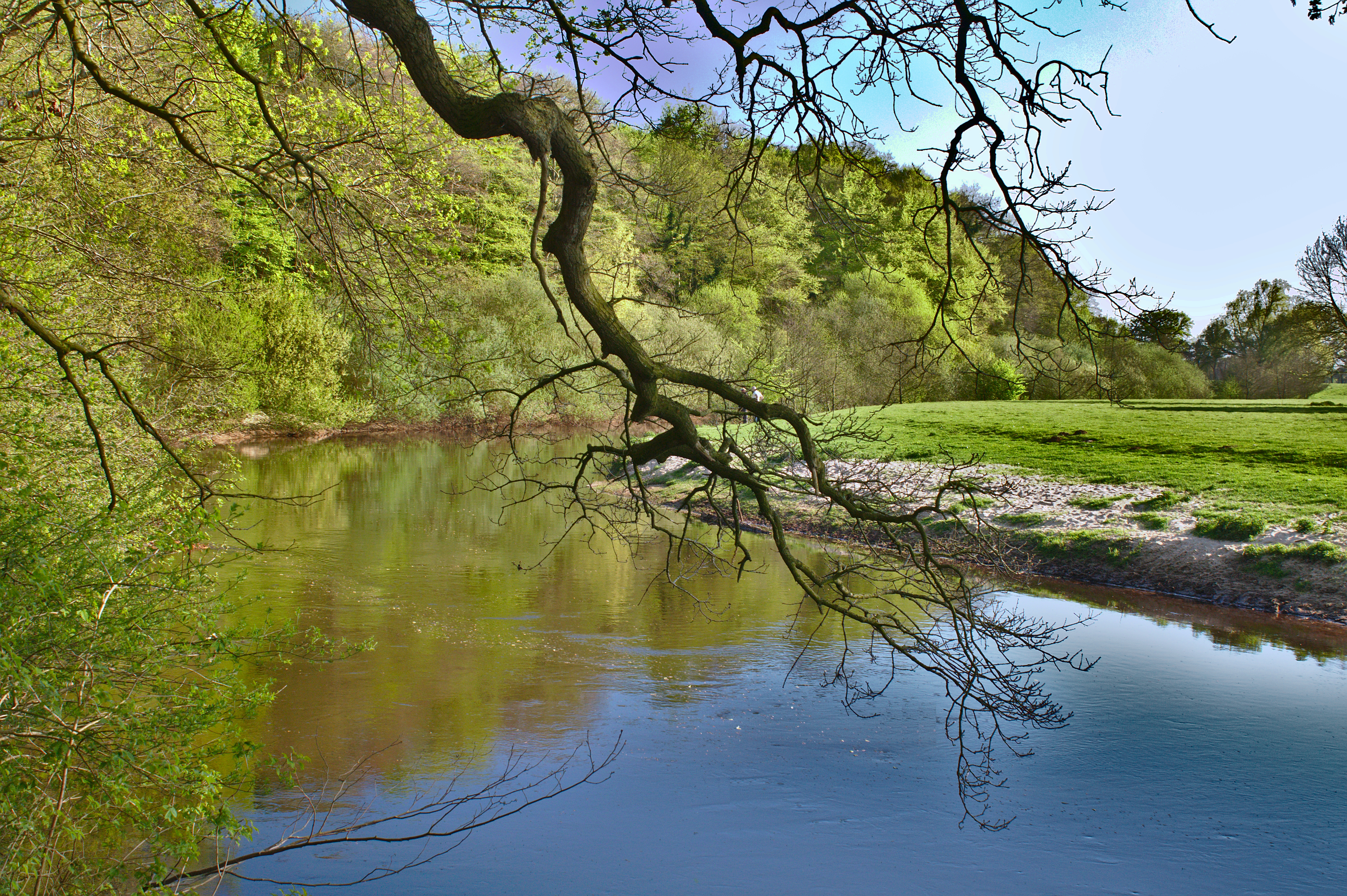 Bend of the Hunte river just above the north-western end of the Barneführerholz forest (left) in Sandkrug, Hatten municipality, Germany.